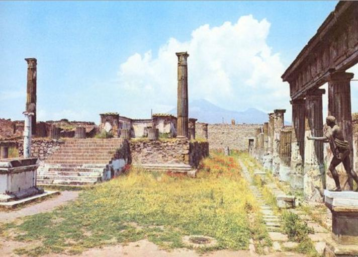 Artist's illustrated reconstruction of how the Temple of Jupiter at Pompeii may have looked before Mt. Vesuvius erupted. The temple dates back to the second century BC. When Pompeii became a Roman colony in 80 BC, the temple was transformed into a Capitolium dedicated to the Capitoline Triad of Apollo, Juno, and Minerva. Placed upon a high podium, approximately ten feet tall, its axis formed the formal axis of and focal point of the Forum; it had two series of double columns dividing it longitudinally, typifying a Greek influenced Roman temple, and its back wall was veneered in marble.